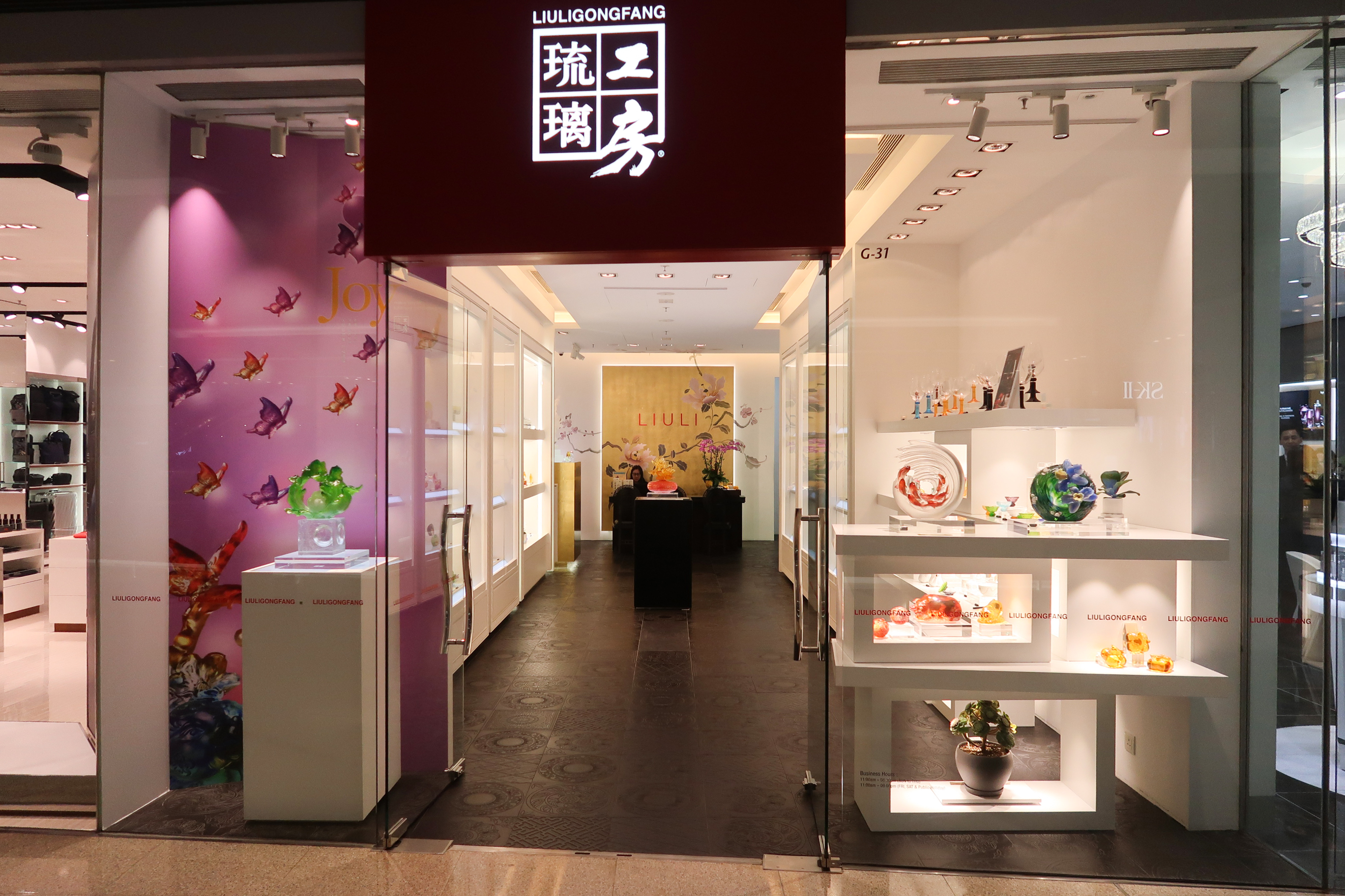 LIULIGONGFANG in Festival Walk